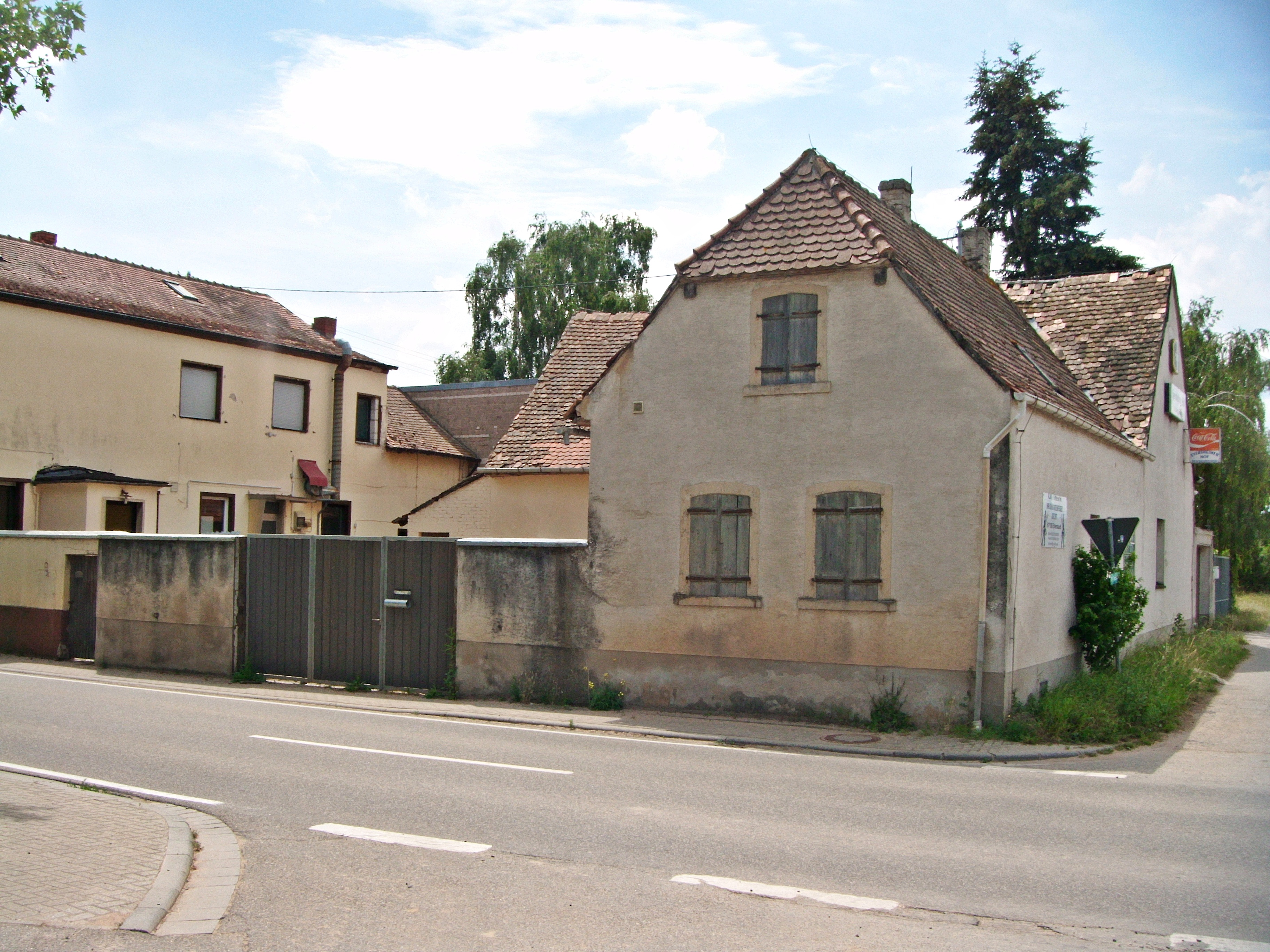 Eyersheimer Hof, Haupthaus von Osten